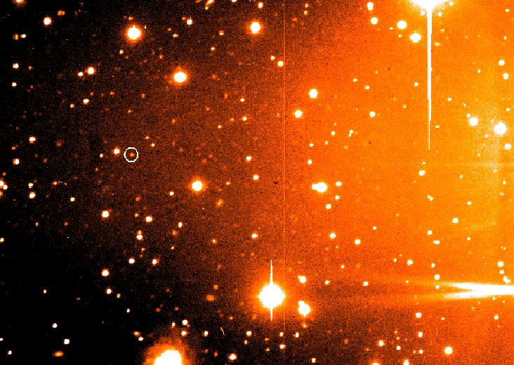 Caliban (circled) was discovered with a ground-based telescope in 1997. Image Credit: Palomar Observatory